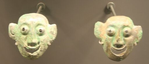 Chinese Shang Dynasty bronze face masks, 2nd millennium BC